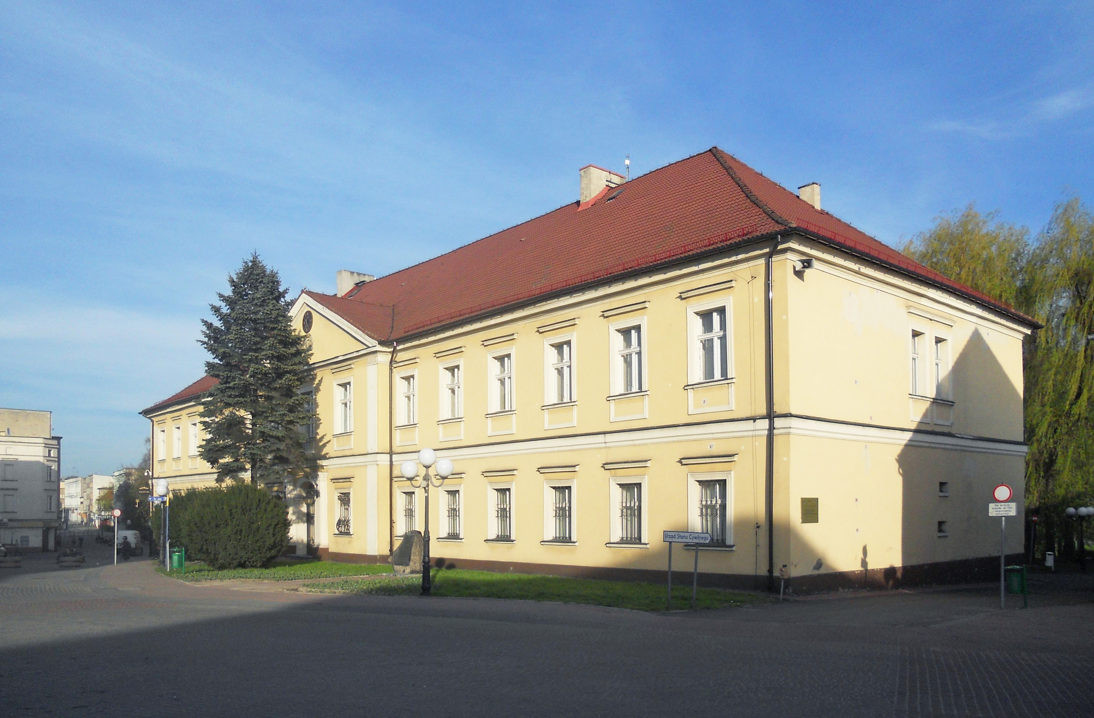 Dietrichstein's palace in Wodzisław Śląski 2012